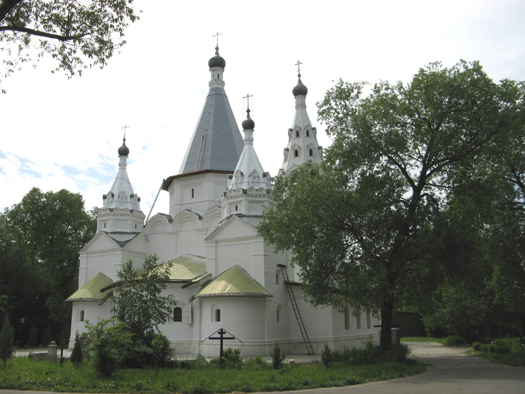 Trinity Church in Troitskoe-Golenischevo (Moscow)